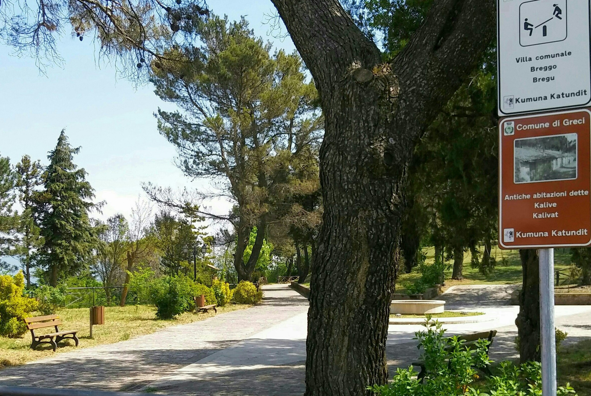 A public park in Greci, Italy